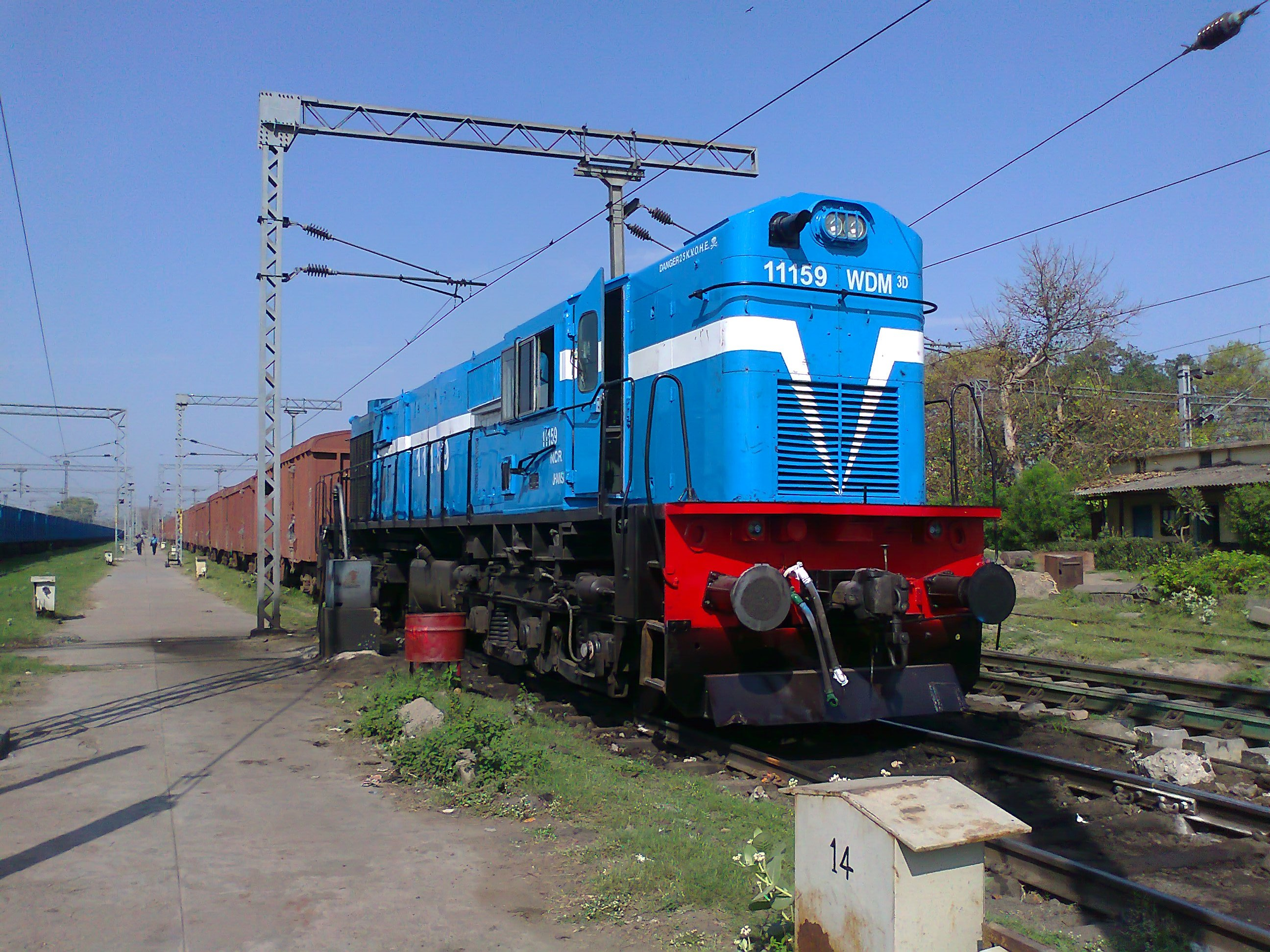 WDM3D loco numbered 11159 at Lucknow, Uttar Pradesh